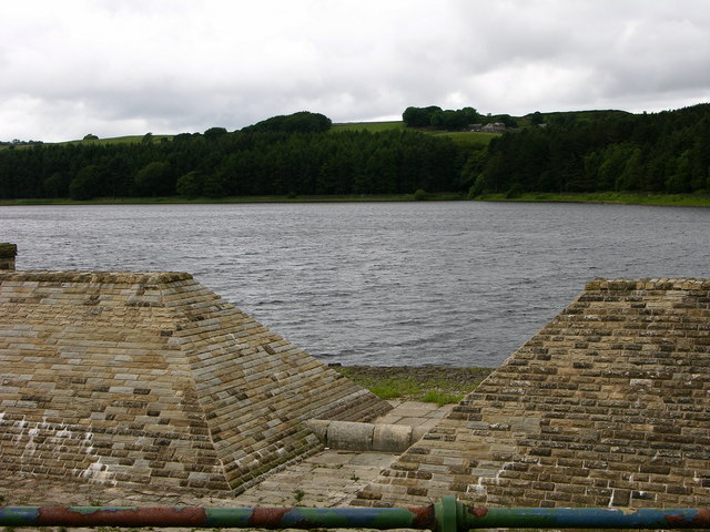 View west of Turton and Entwistle Reservoir, Edgworth, Blackburn with Darwen, Lancashire